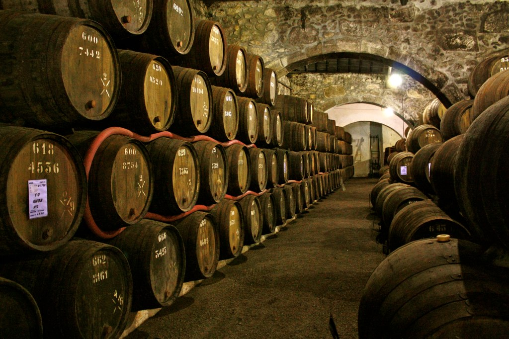 Wine barrels in the Portuguese cellar of the Douro Port shipper Croft